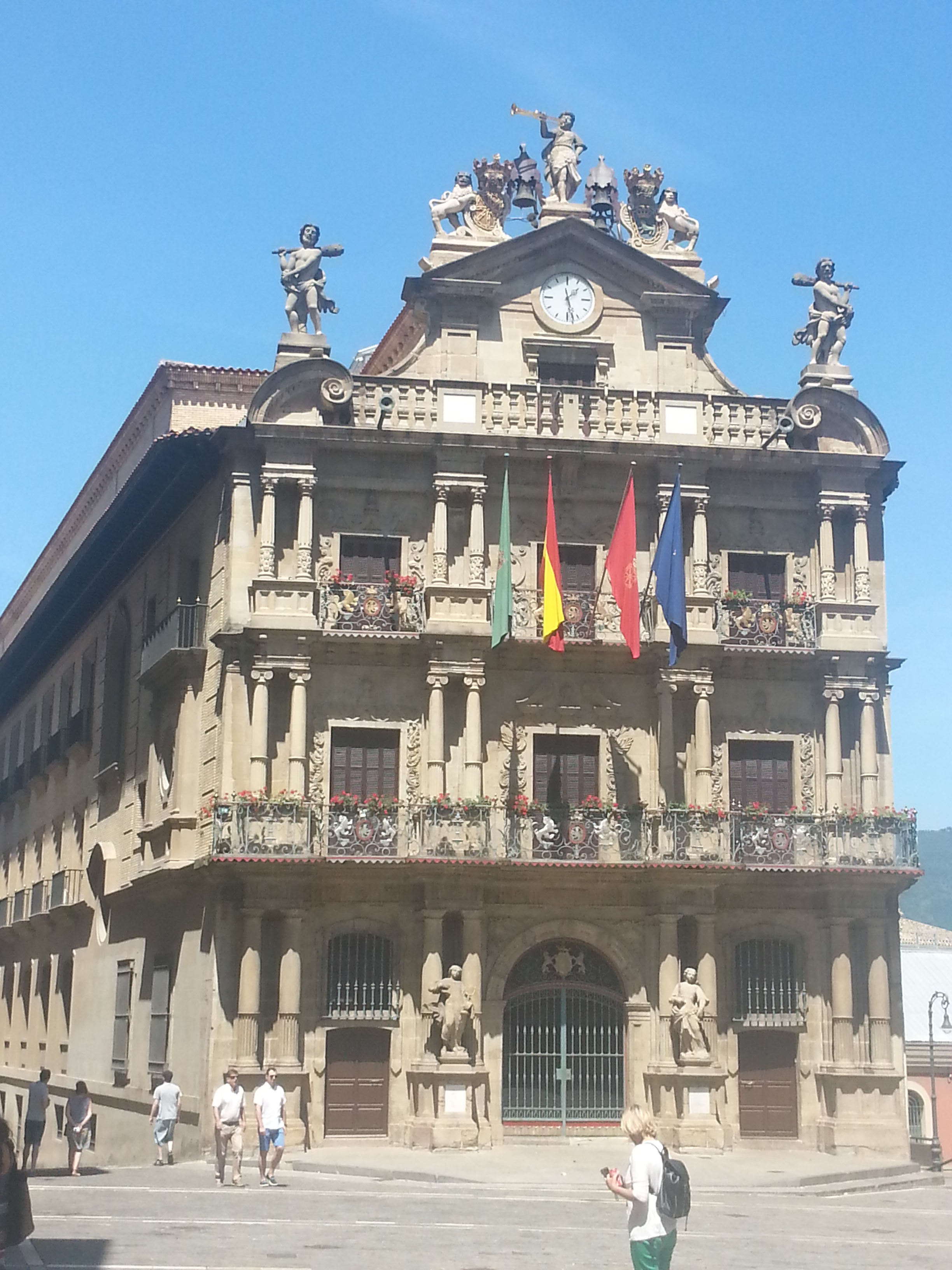 Navarra